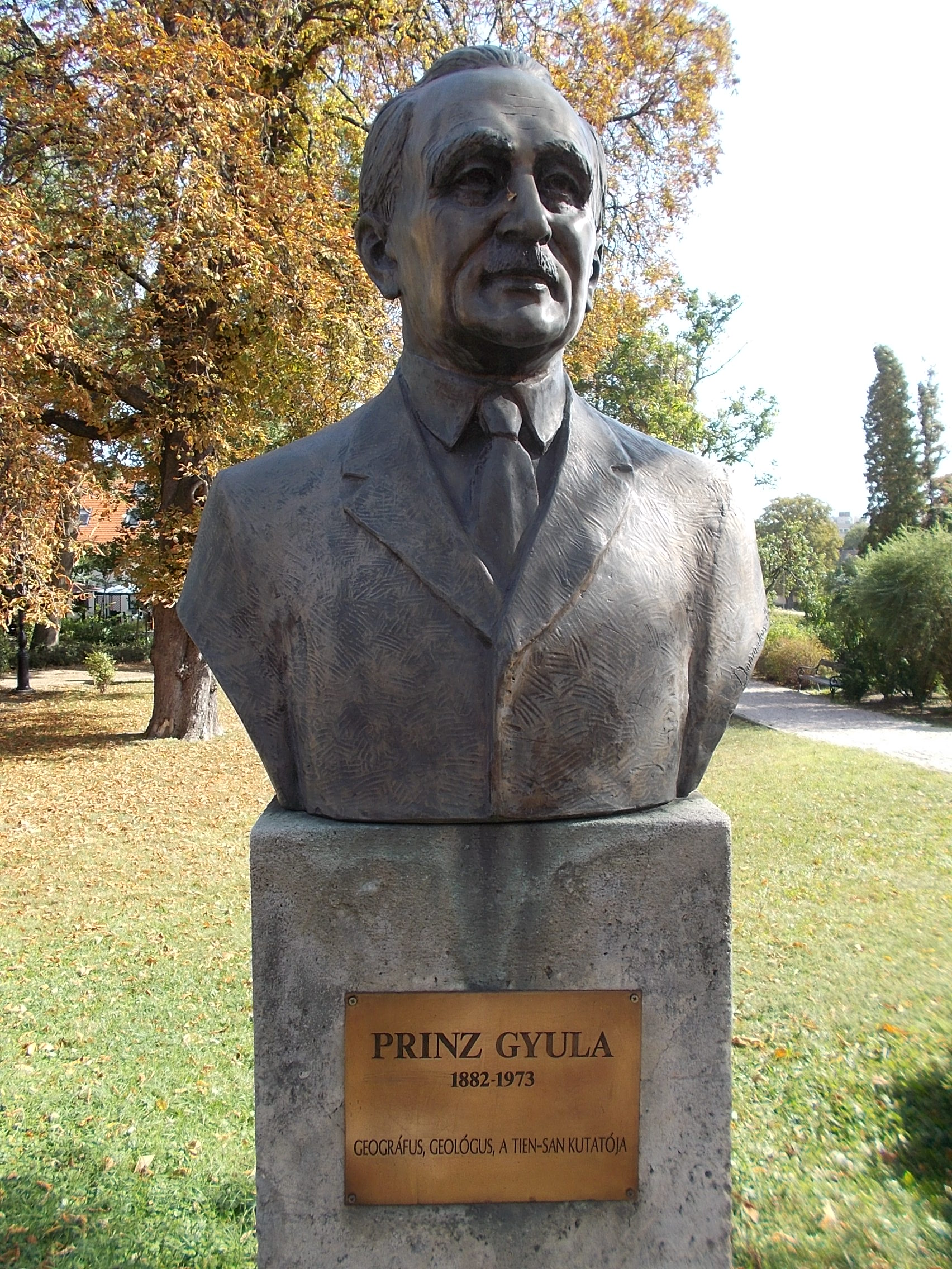 Bust of Gyula Prinz by Béla Domonkos in 1993. - Budai street, Érd, Pest County, Hungary